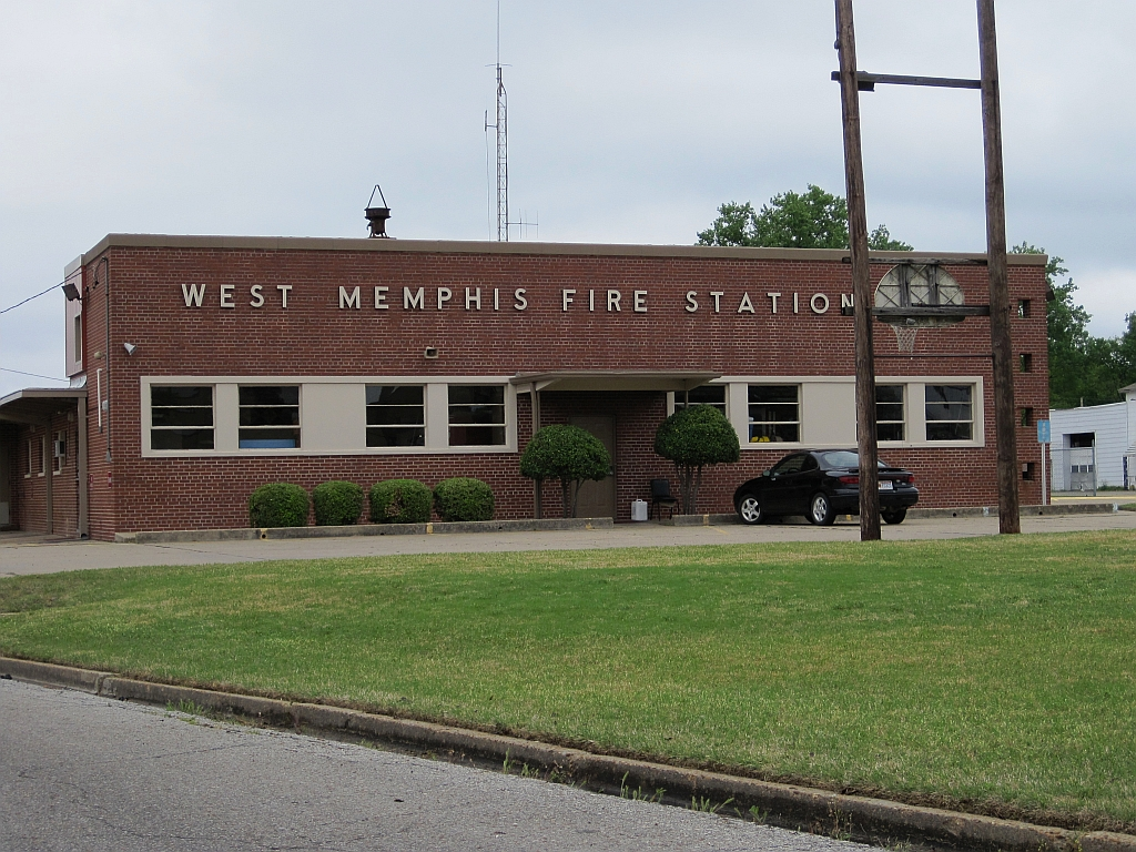 Fire Department, Station No. 1 in West Memphis, Arkansas